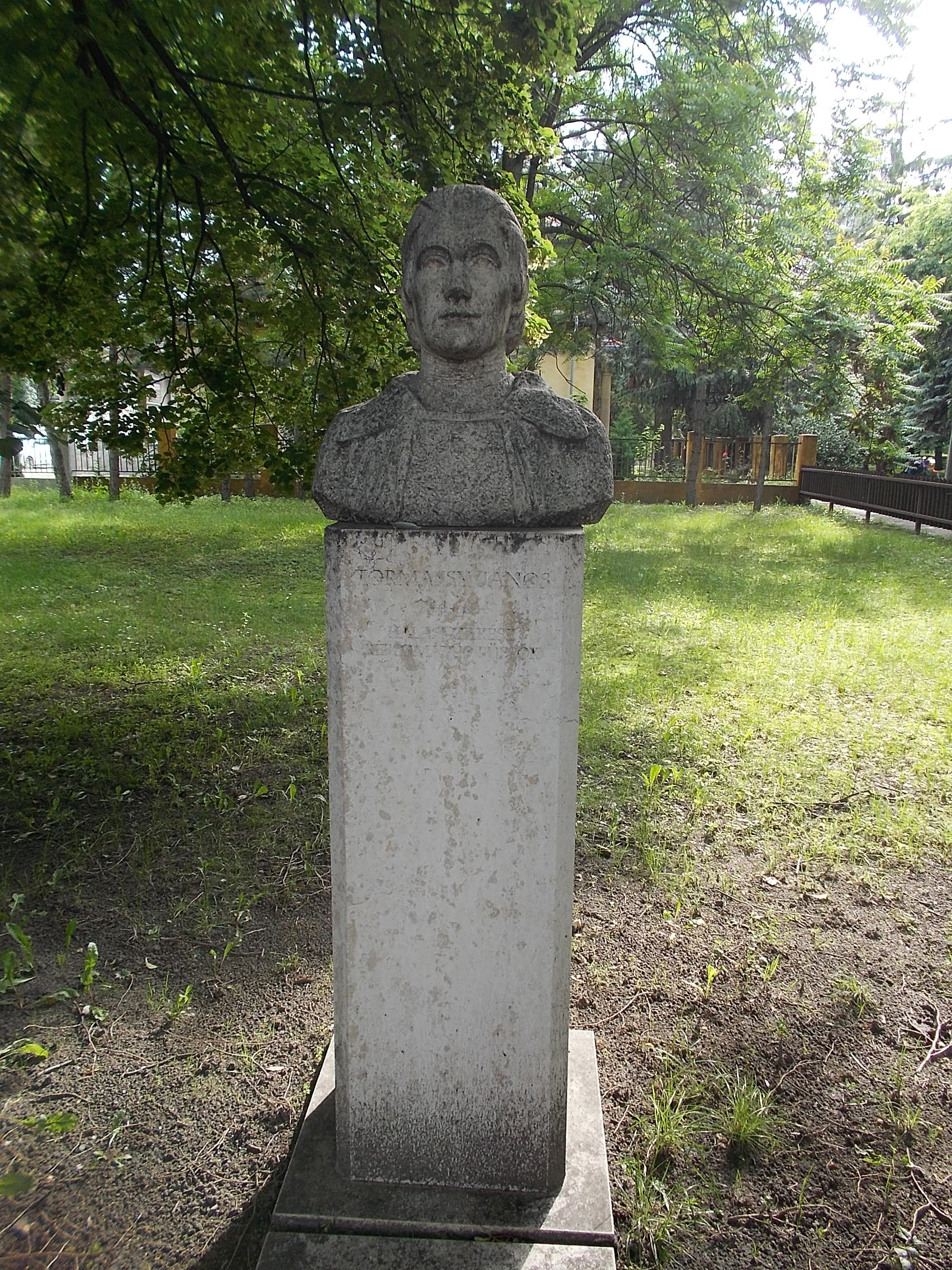 János Tormássy by Mihály Fritz (2006). - 37 Kossuth utca, Kiskunhalas, Bács-Kiskun County, Hungary.